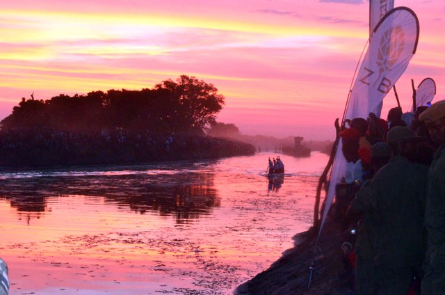 This is an image with the theme "Africa on the Move or Transport" from: Zambia